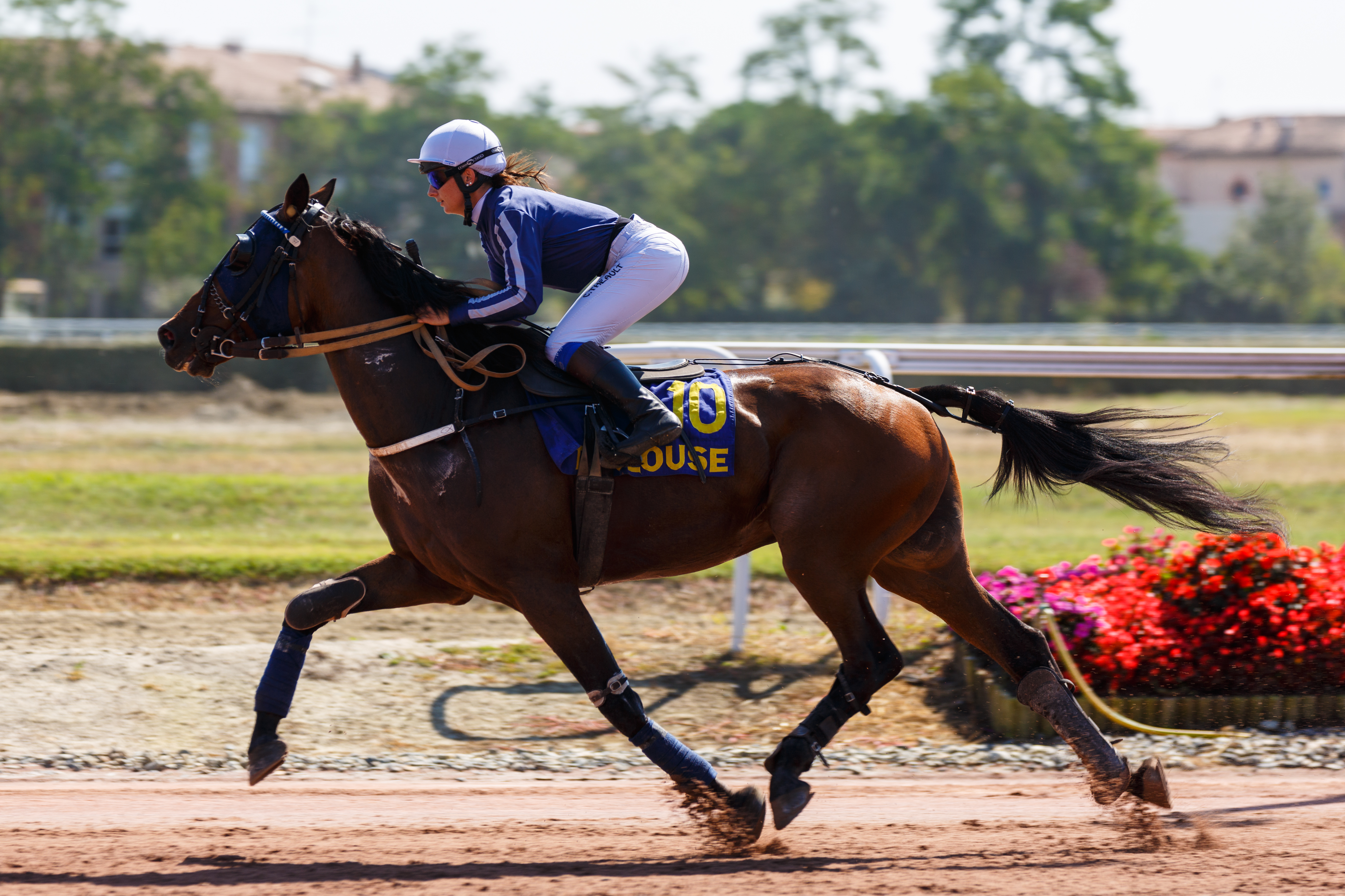 2016 Prix de Belesta: Caroline Théault riding Vezac Duophi